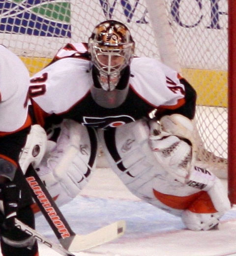 NHL game Philadelphia Flyers versus Calgary Flames. Players: Daniel Carcillo (PHI 14), Andrew Alberts (PHI 41), Antero Niittymäki (PHI 30), Claude Giroux (PHI 28), Craig Conroy (GCY 24) and Curtis Glencross (GCY 20)